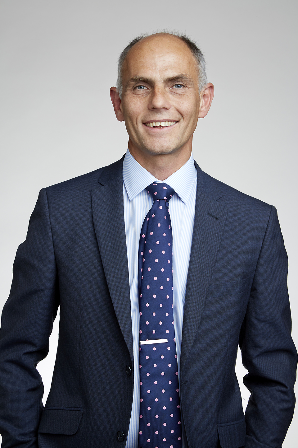 Philip John Withers (born May 1963) FREng FRS is the Regius Professor of Materials in the Materials Science Centre at the University of Manchester. Attribution: The Royal Society